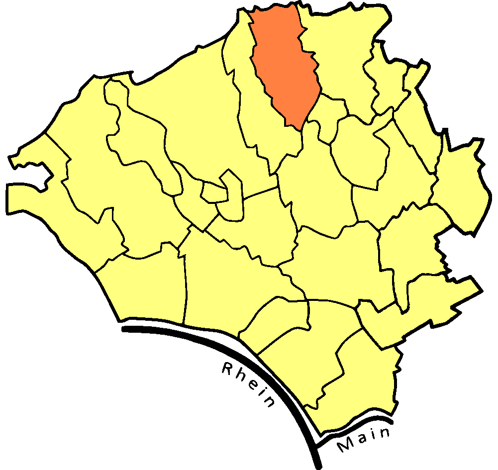 Map of Wiesbaden showing the location of Rambach